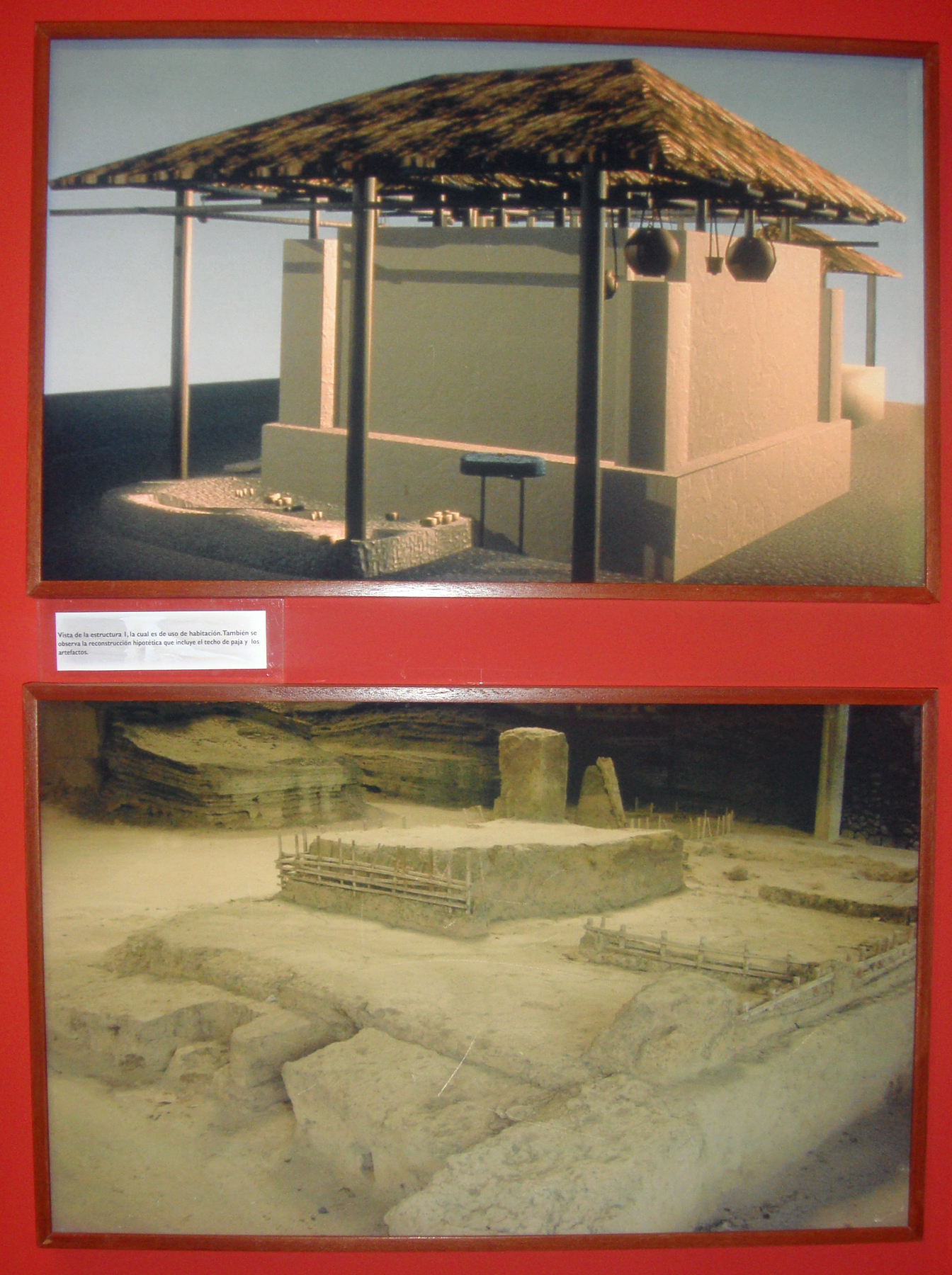 Remains of maya village of Joya de Cerén buried by volcano eruption around A.D. 600 (El Salvador). Artist depiction of Structure 1 at Area 1 shown at the Park's Museum.